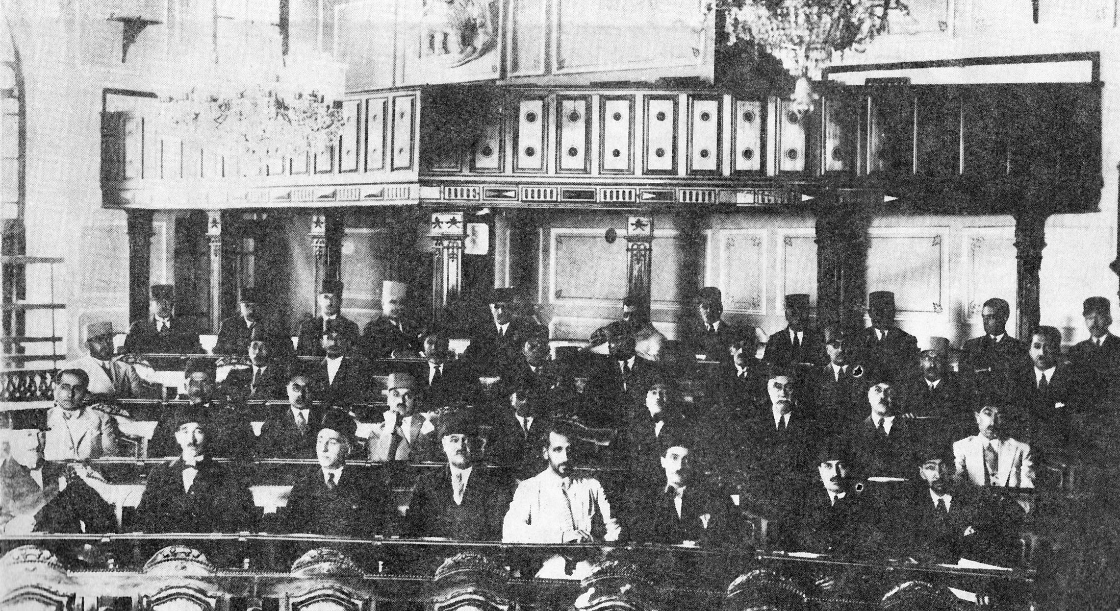 Representatives Majlis 8 1309-1311, Ali Dashti first row)